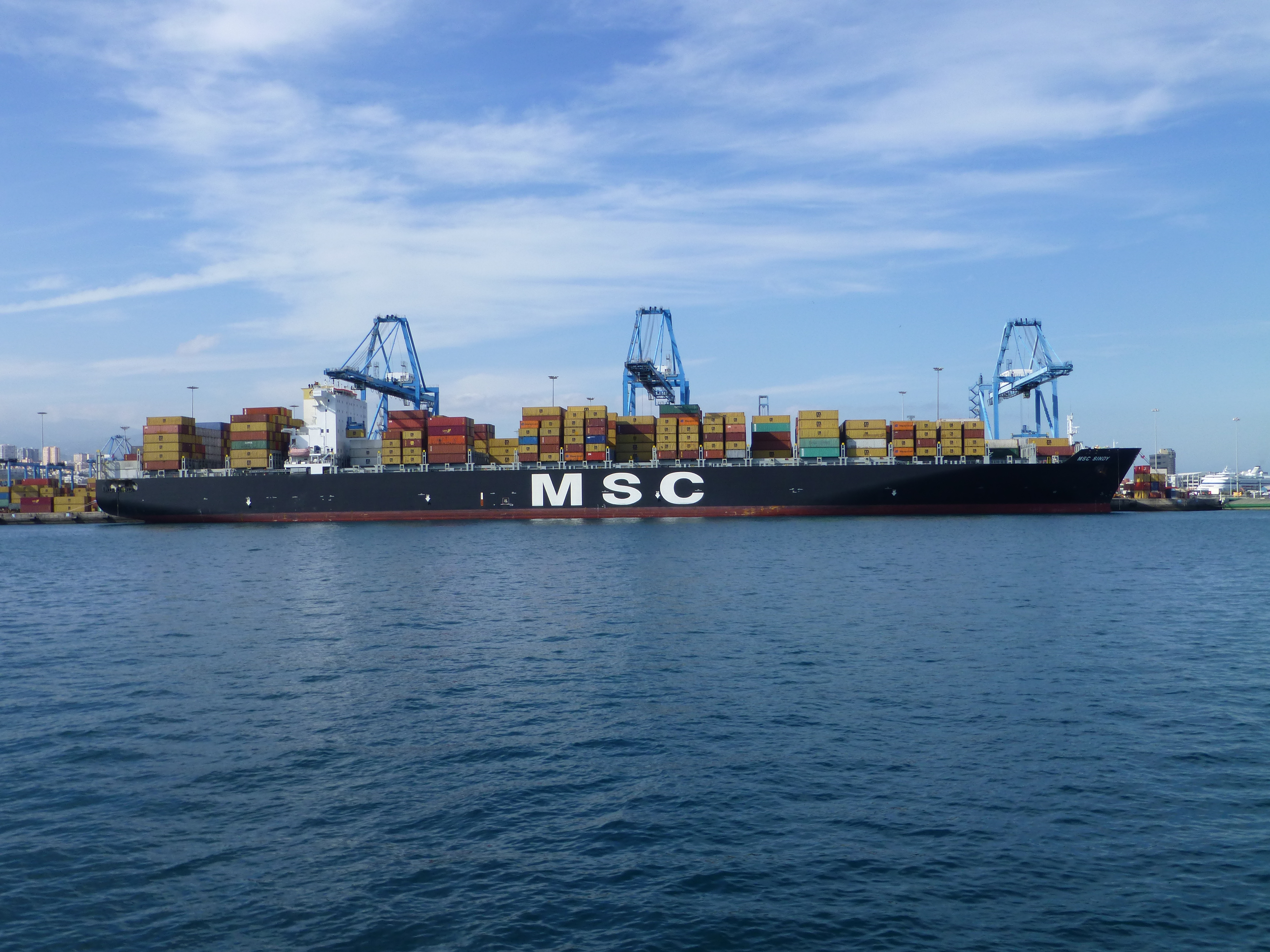 The "MSC Sindy". This vessel is considered one of the largest container ships in the world. Sindy can carry under 9,580 TEUs, 700 of which may be refrigerated containers. Picture taken at the Port of La Luz (Gran Canaria, Canary Islands, Spain), on January 4, 2013.